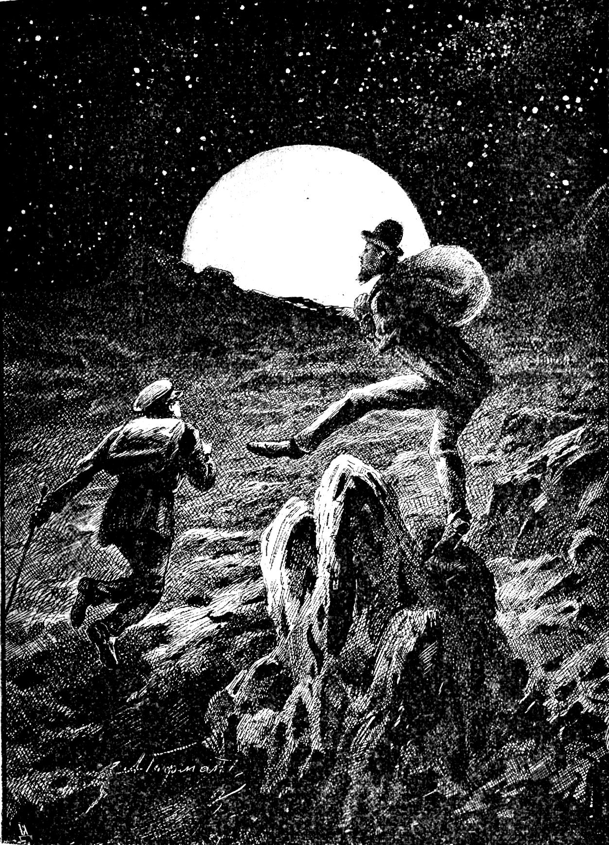 Picture from book "На Луне" (1893)